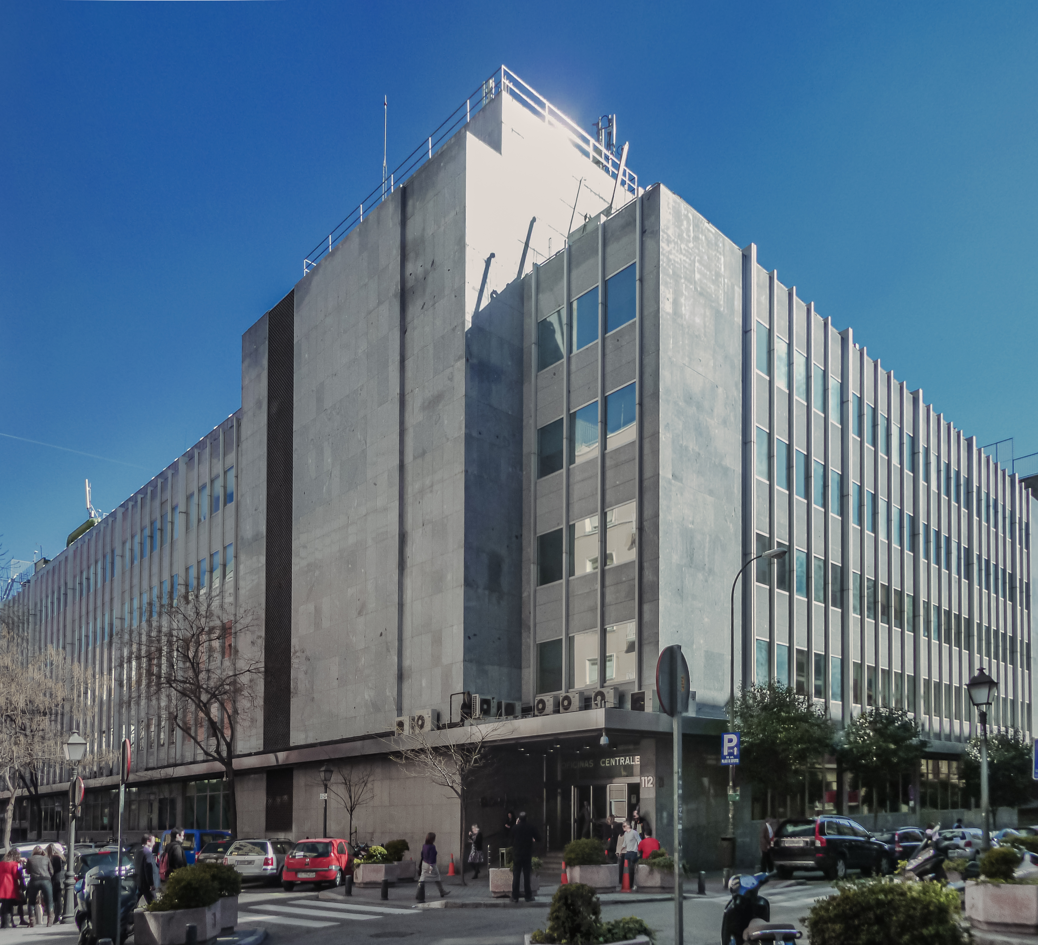 Head offices of El Corte Inglés group (including Hipercor), at 112 Calle de Hermosilla (street) in Salamanca district in Madrid (Spain).